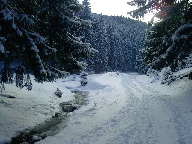 Şipoaia River, Brasov County, Romania